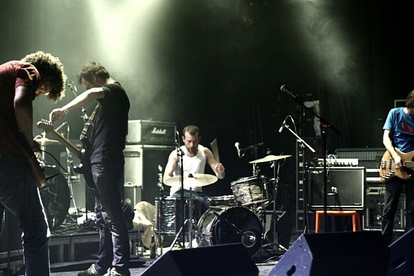 I Am Bones